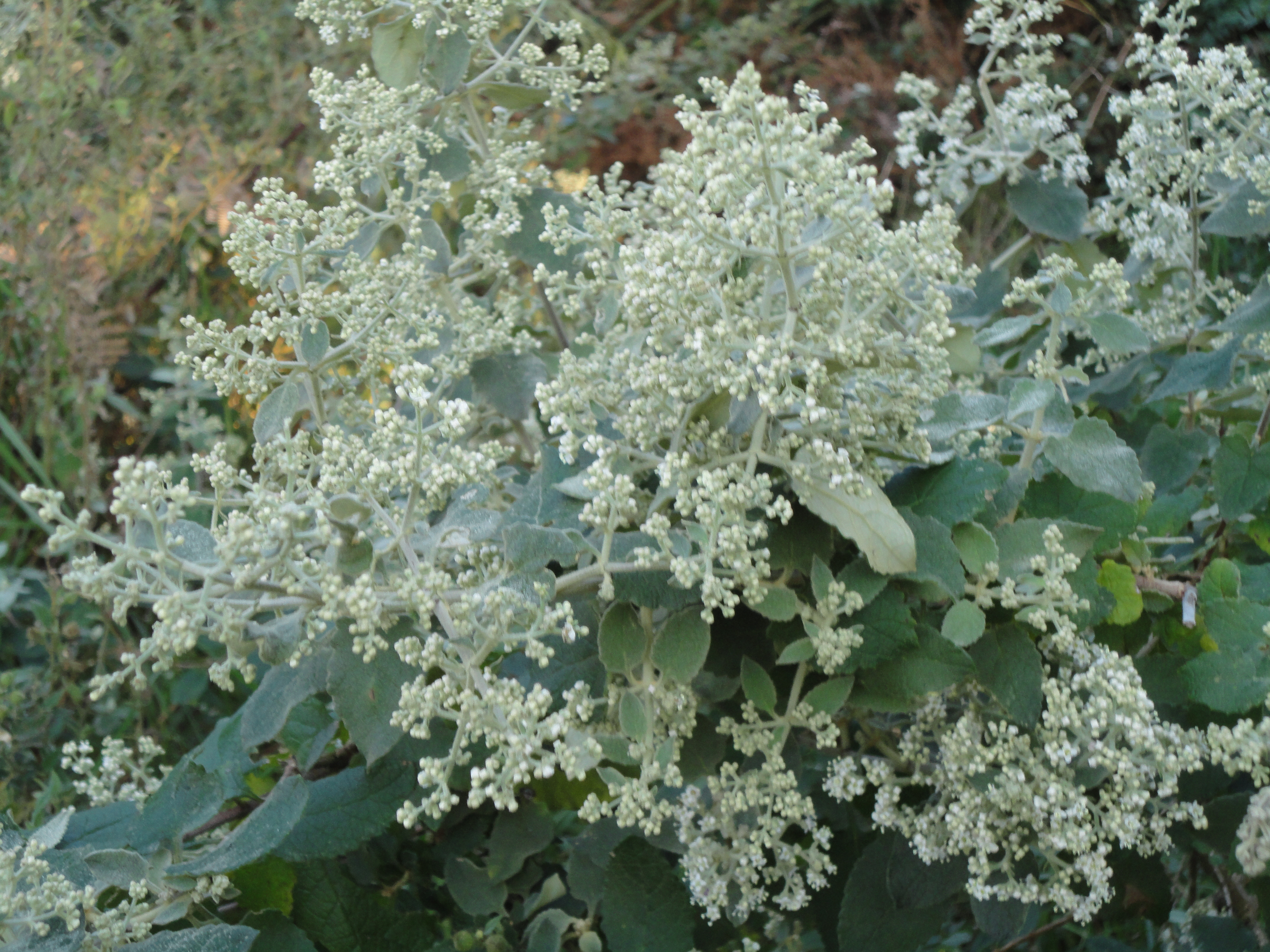 Panicles of a White Climbing Sage, near Louwsburg, KwaZulu-Natal